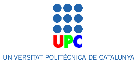 Original pic for bayer pattern demosaicing explanation